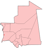 Map of Mauritania showing Nouakchott region.